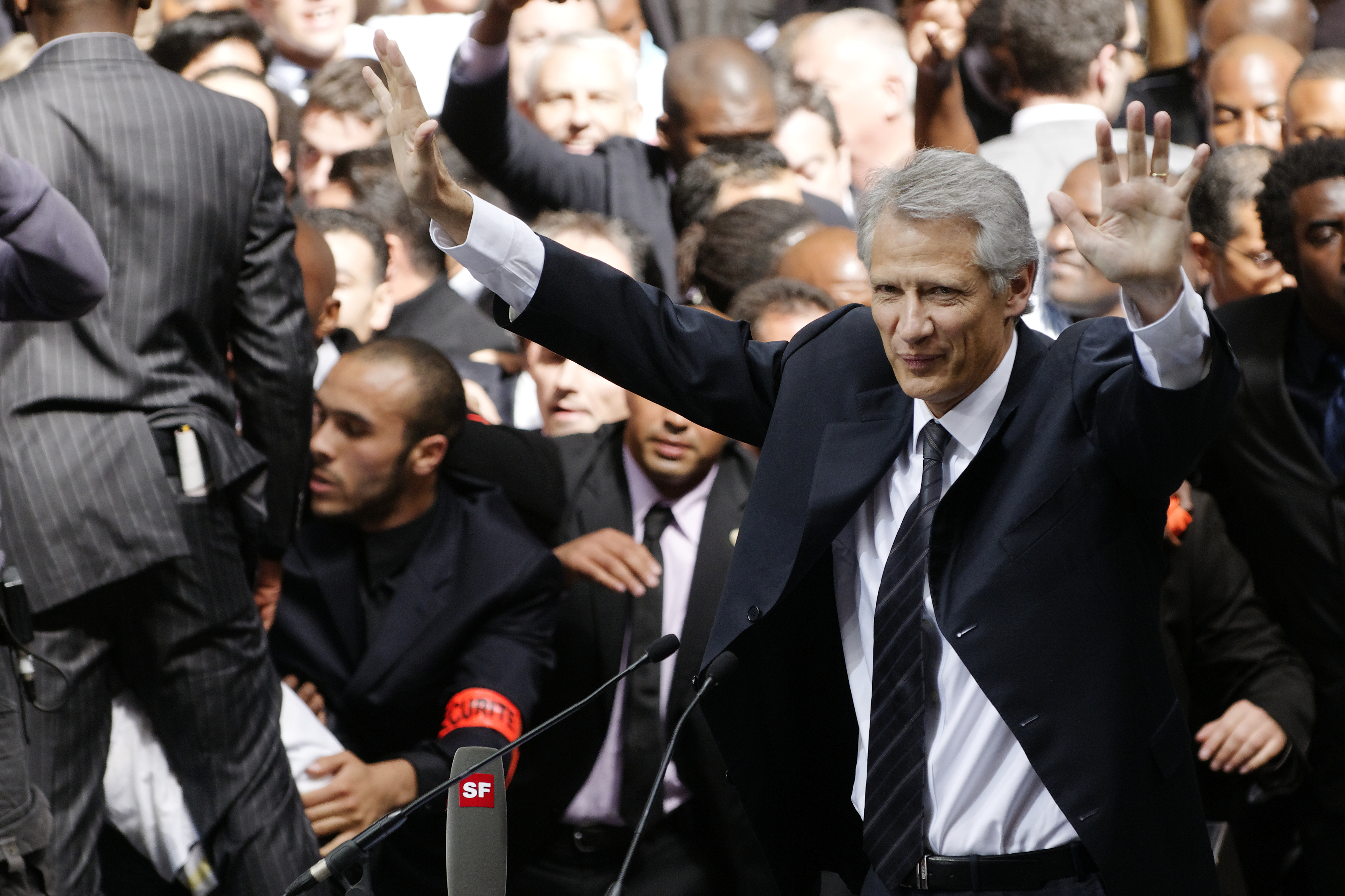 Dominique de Villepin at the launch of his new party, République Solidaire. Paris, Halle Freyssinet.